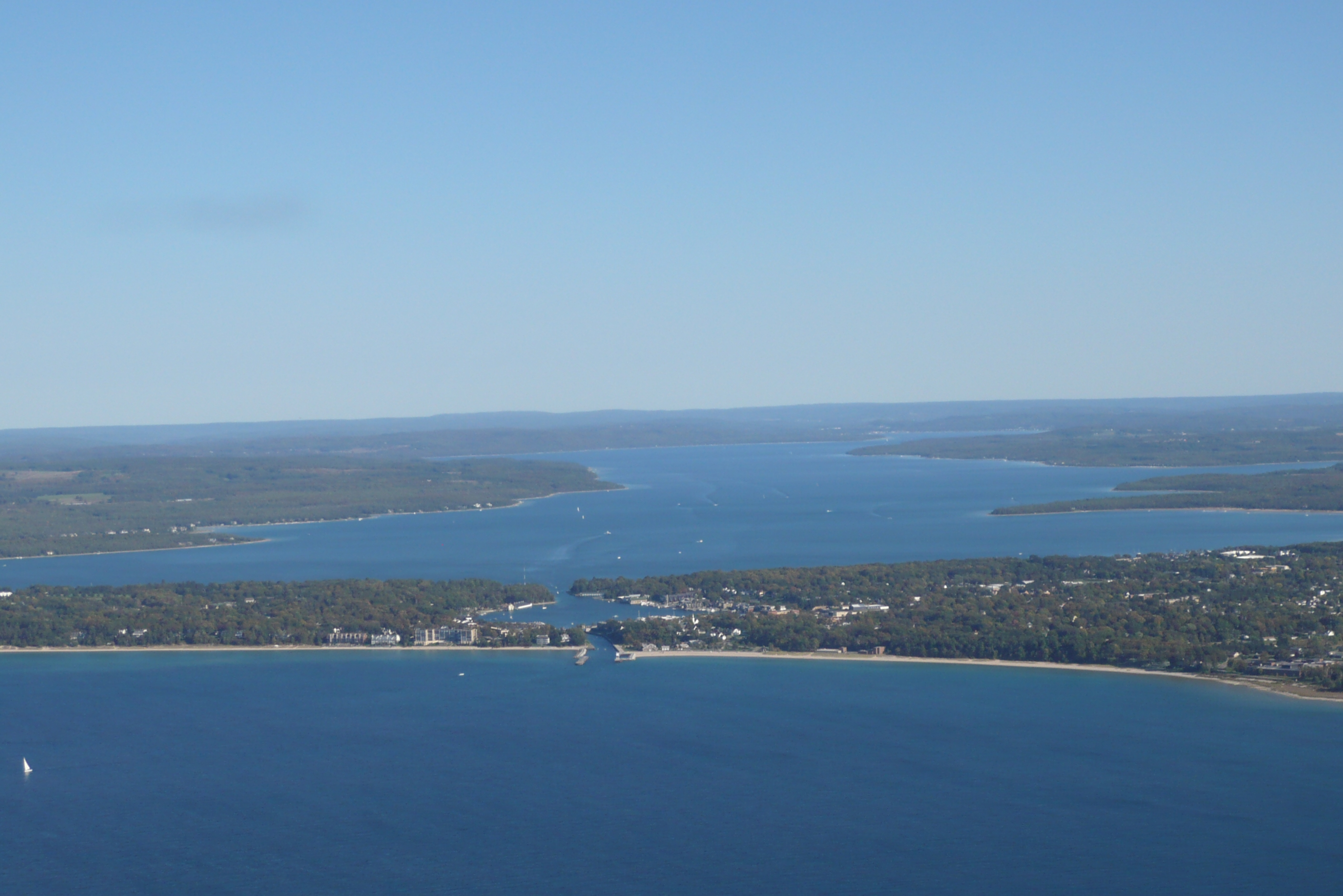 Aerial view of Charlevoix, Michigan, USA, taken from above Lake Michigan. The Pine River flows into Lake Michigan from the small Round Lake and Lake Charlevoix.